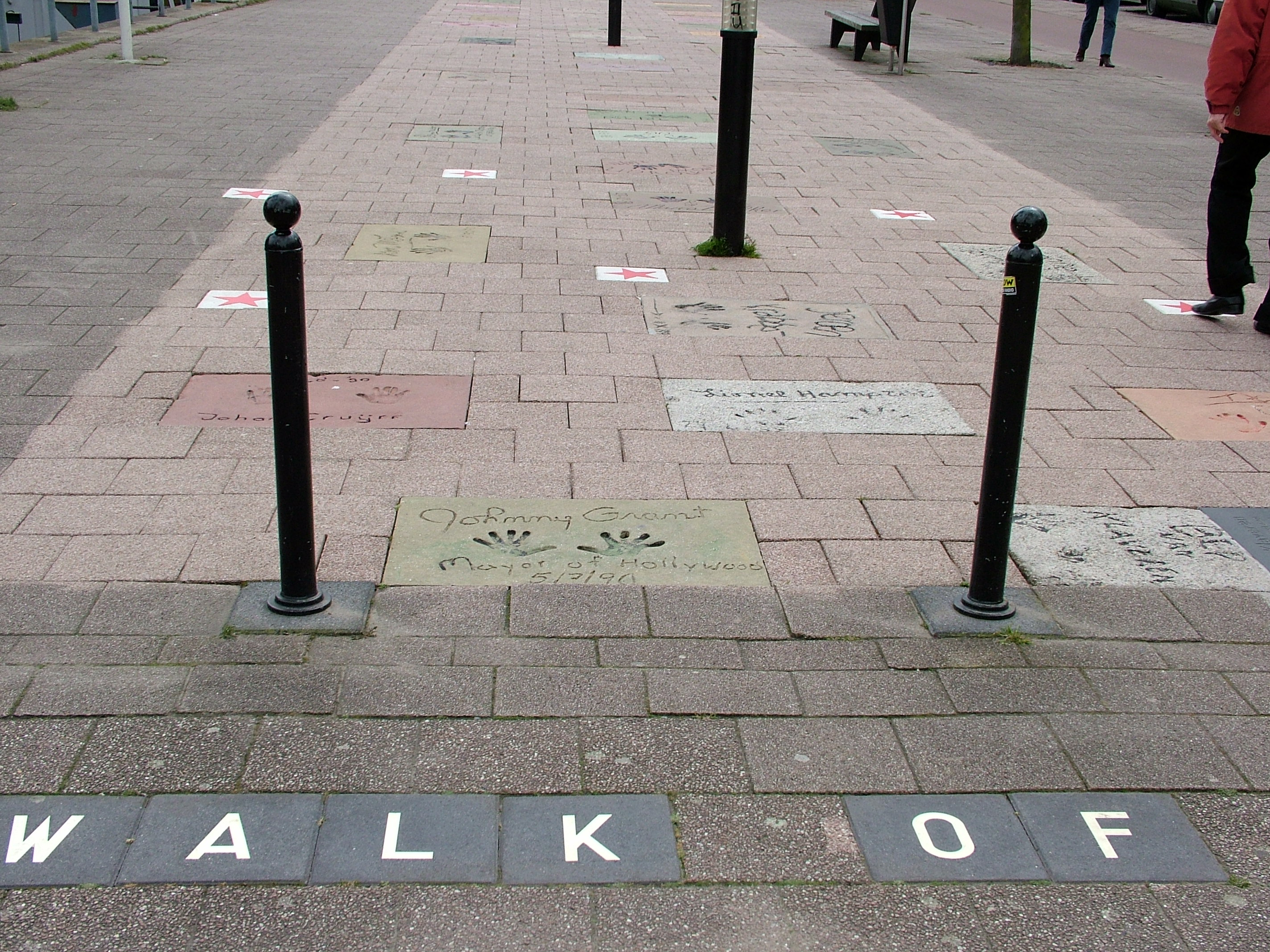 Walk of Fame, Rotterdam